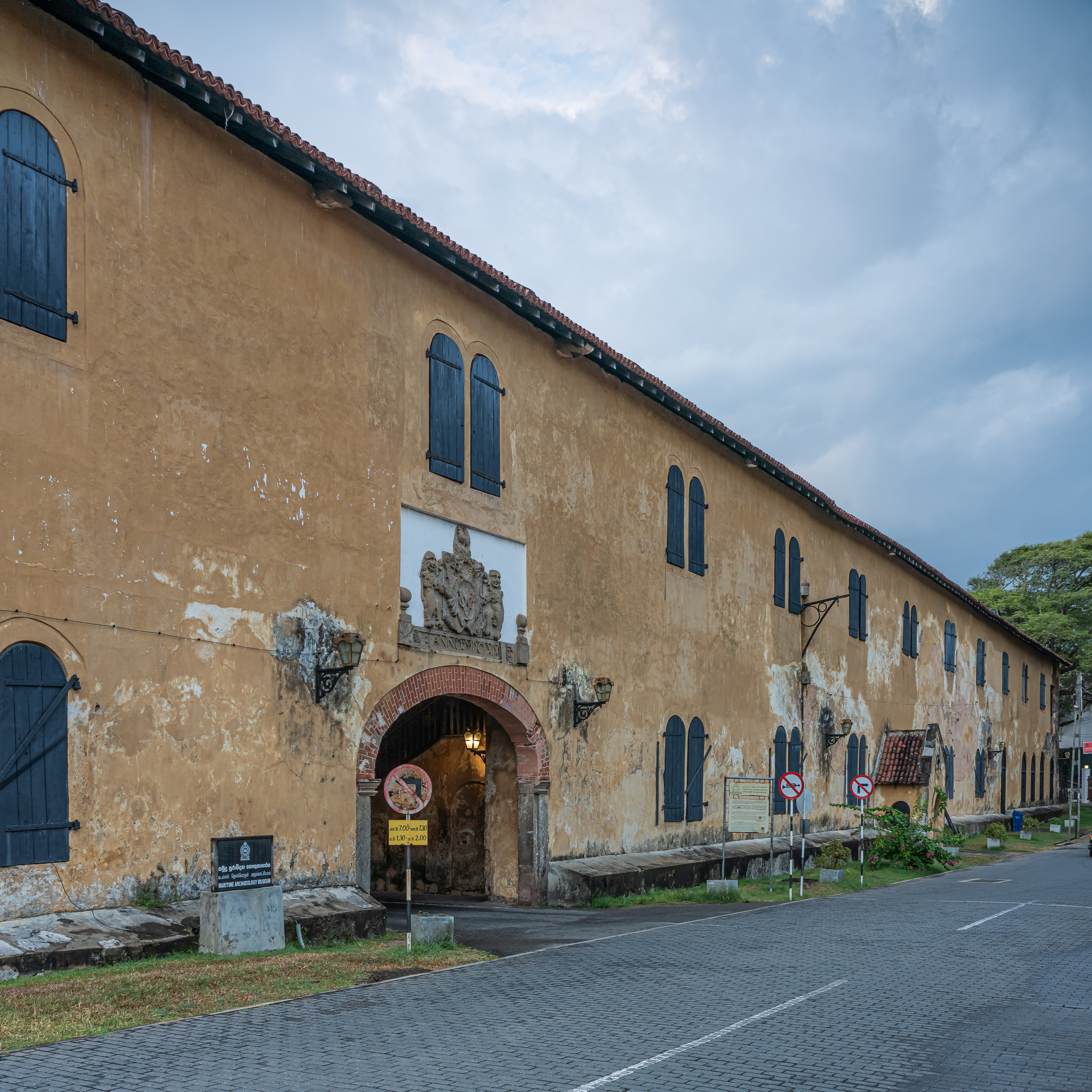 Former warehouse in the Dutch Fort of Galle, Sri Lanka